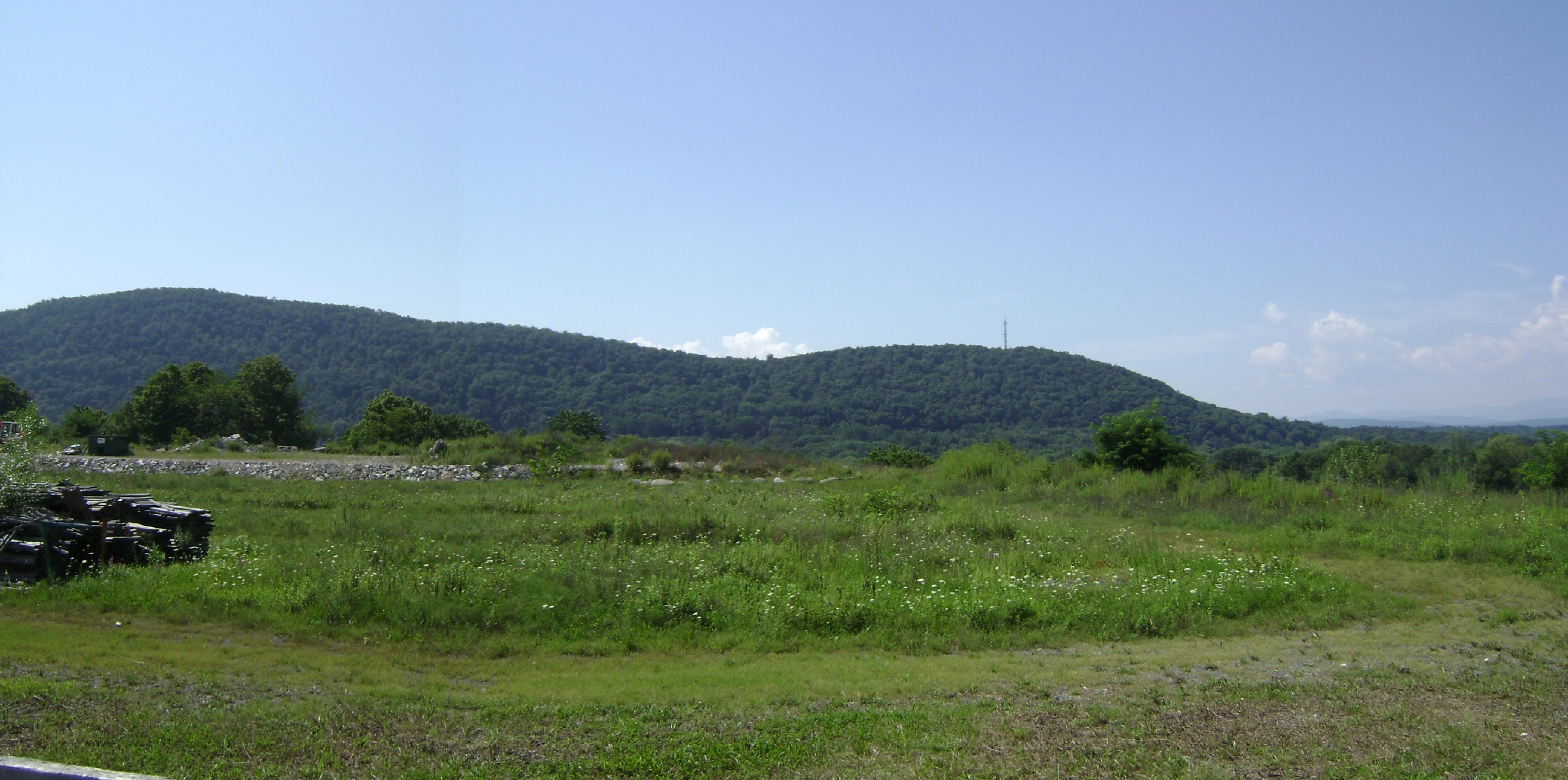 Hussey Hill, the northernmost ridge of the Marlboro Mountains, seen from Port Ewen in Ulster County, New York, USA. Photo composite created by combining two images of Hussey Hill taken from the side of U.S. 9W. Images were stitched together in Inkscape.